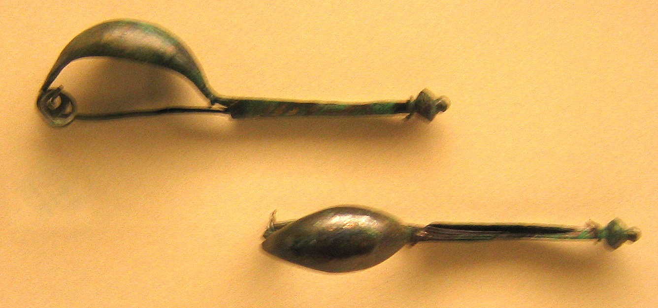 Brooches found in a grave of the Hallstatt culture